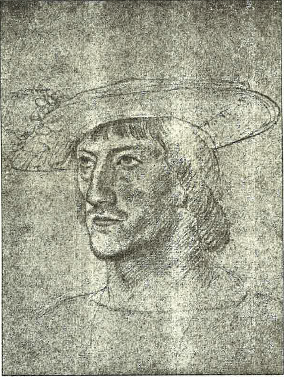 Portrait of Philbert Prince of Orange from a contemporary portrait in Grew, Marion Ethel (1947). The House of Orange. 36 Essex Street, Strand, London W.C.2: Methuen & Co. Ltd. from a drawing in the British Museum